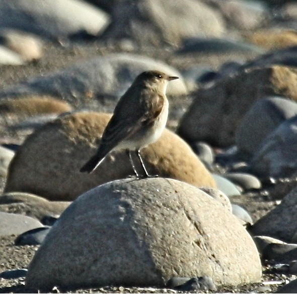 Near Madre de Dios River - Peru